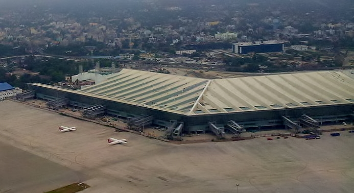 Skyview of the new Kolkata Integrated Terminal